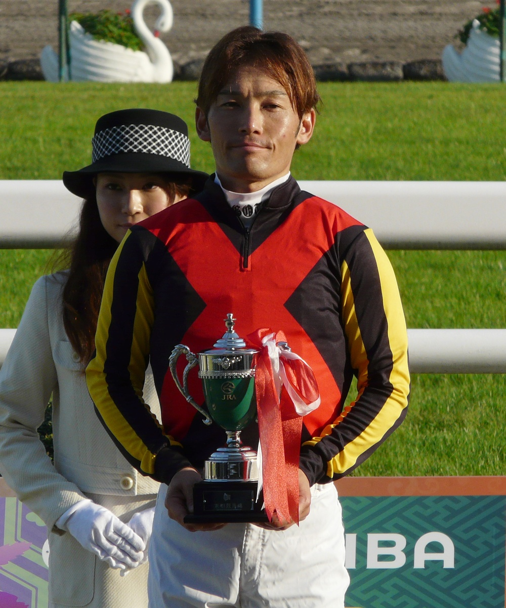 Hiroki-Goto20111009